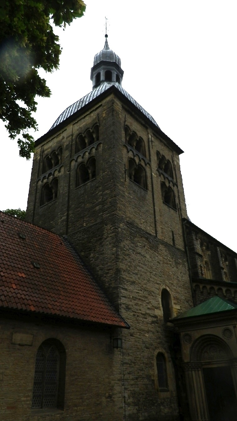 Turm der St. Mauritz-Kirche in Münster, Westfalen